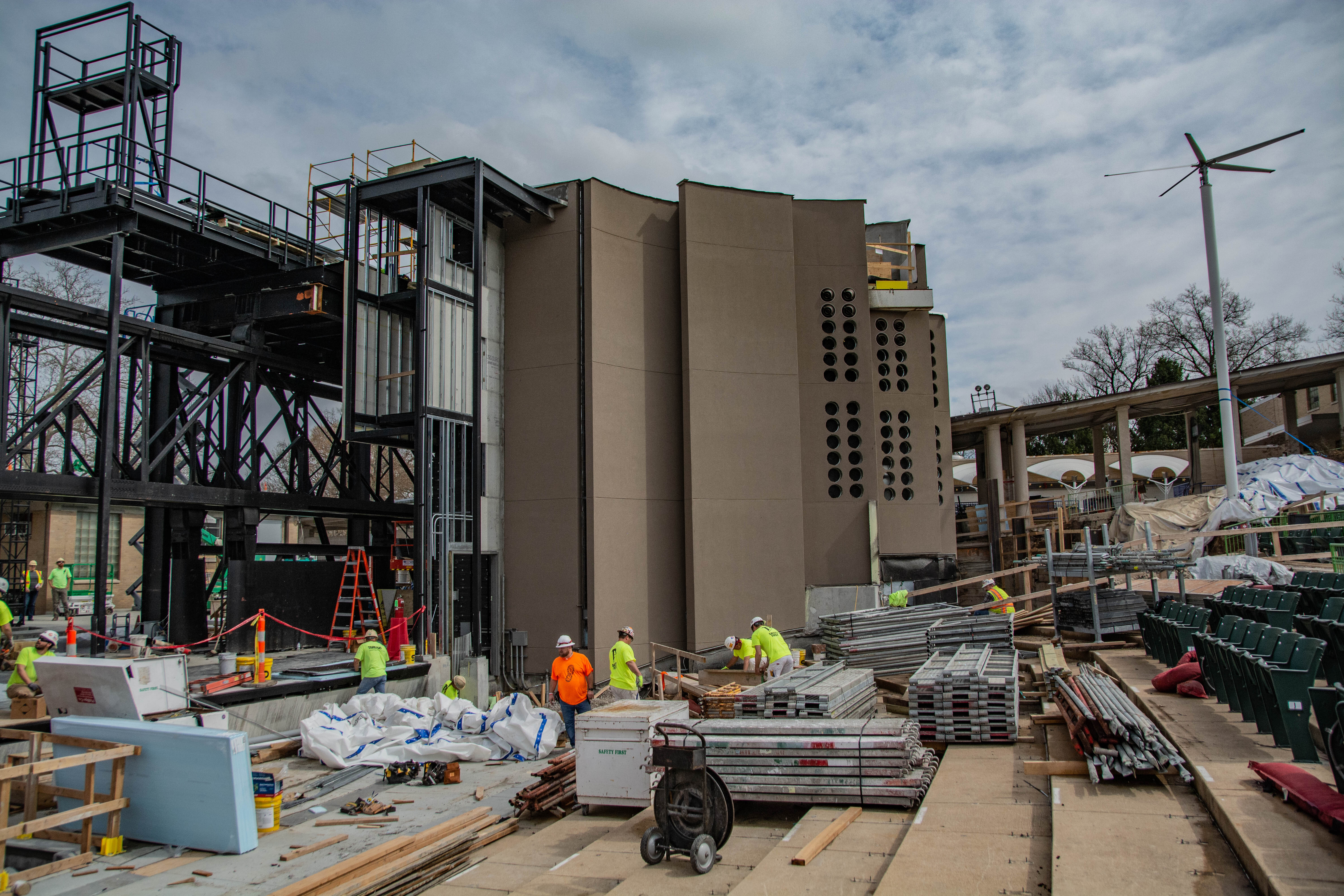 Half of the 72 new air diffusers being added at The Muny.